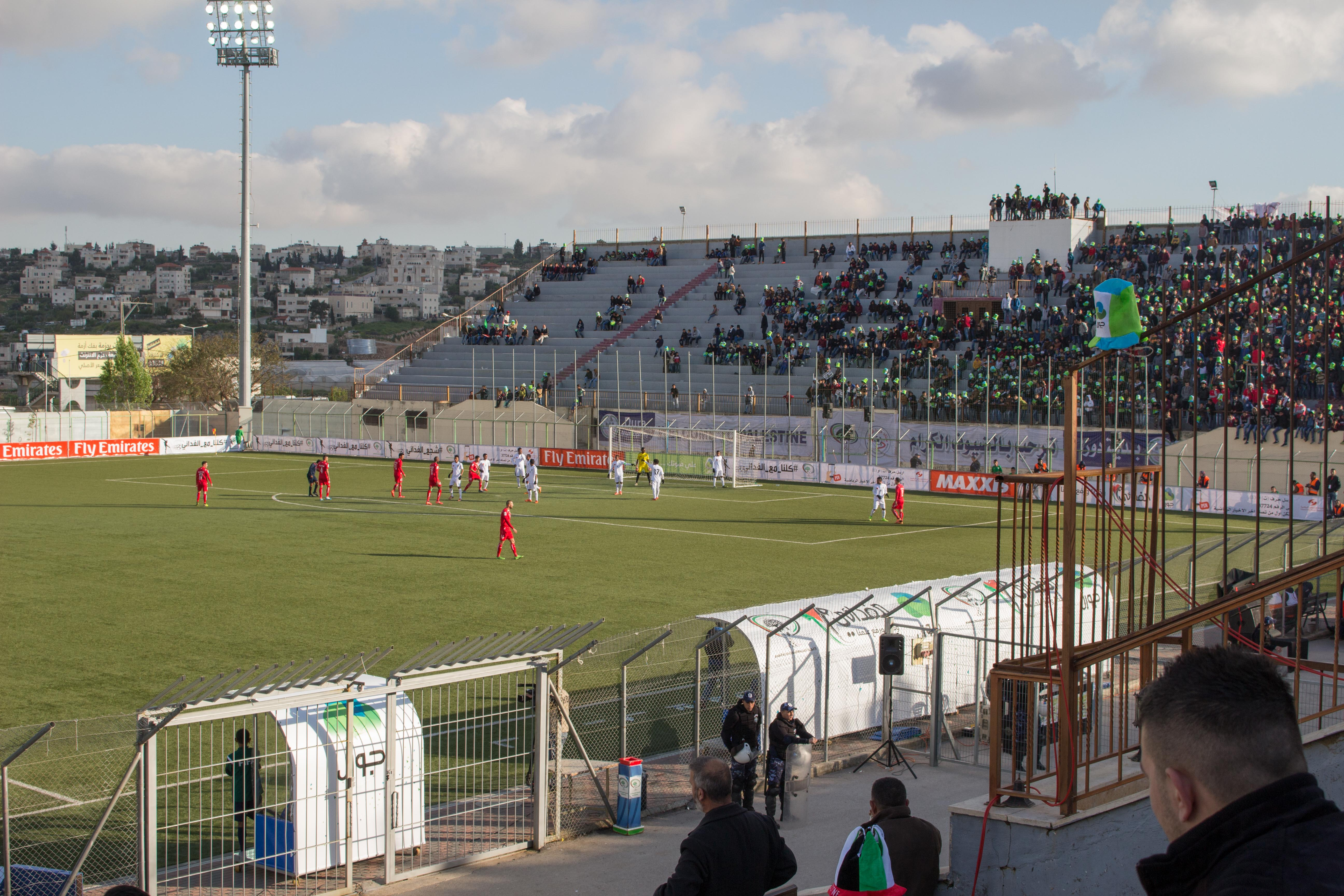 A crowd watches Palestine and East Timor play a World Cup Qualifier match at Dora Stadium, Hebron.